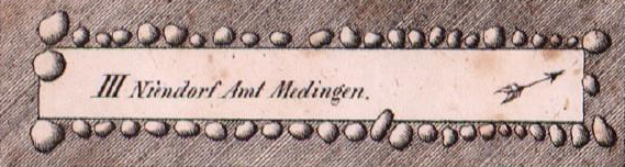 Megalithic tomb near Niendorf I, Sprockhoff-No. 762